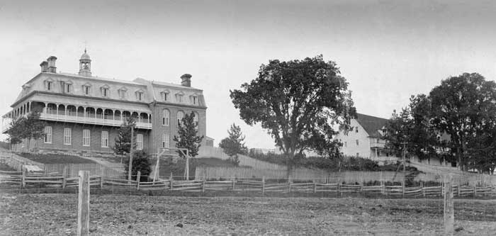 The convent and the hospital of Saint-Basile, New Brunswick, Canada.